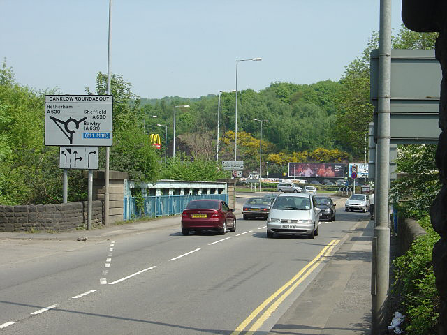 Canklow Bridge looking east The A631 provides a direct link from the south and east of Rotherham to Meadowhall.